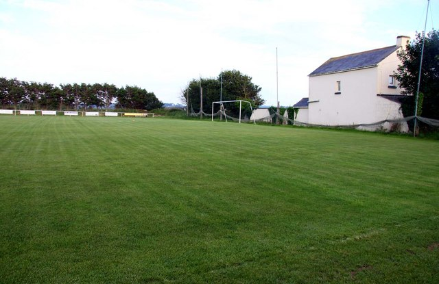 Marshford home of Appledore FC